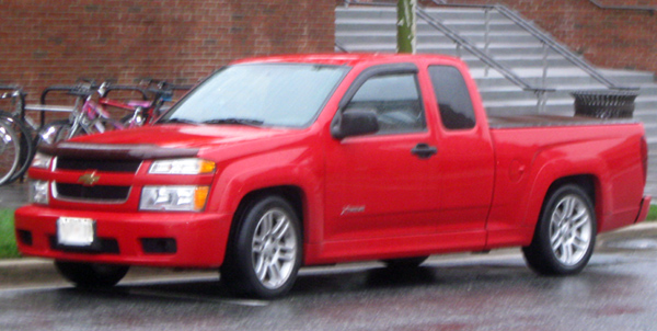 Chevrolet Colorado Xtreme photographed in College Park, Maryland, USA.